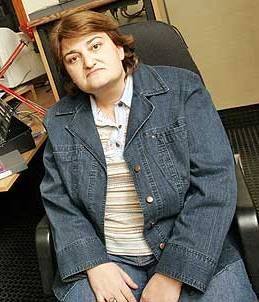 Sara Vivas, an voice actress who voiced Bart Simpson, Kyle from South Park and others characters, during a interview with 20minutos.